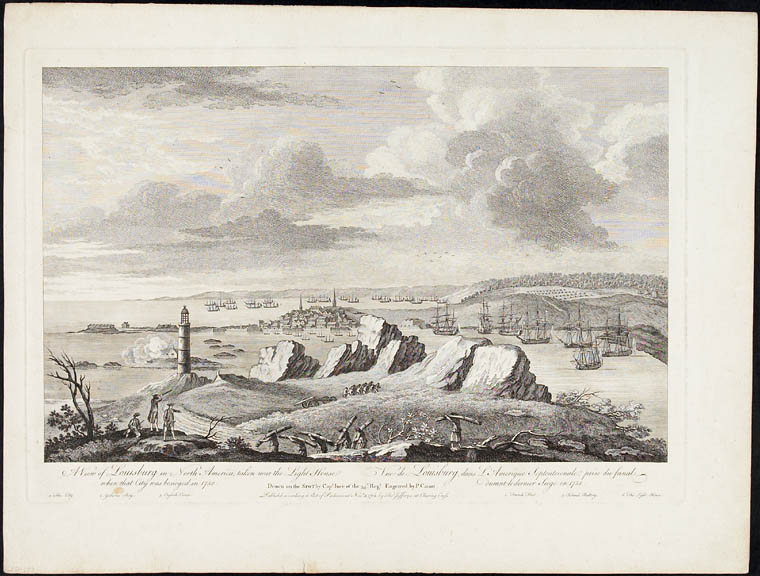 A View of Louisburg in North America, November 11, 1762. This image depicts the city of Louisburg in the background, Gabarus Bay, the English Camp, the French Fleet, the Island Battery and the Lighthouse can beseen on the left. Captain Ince. Thomas Jefferys. Peter Winkworth Collection. Library and Archives Canada, e000943143